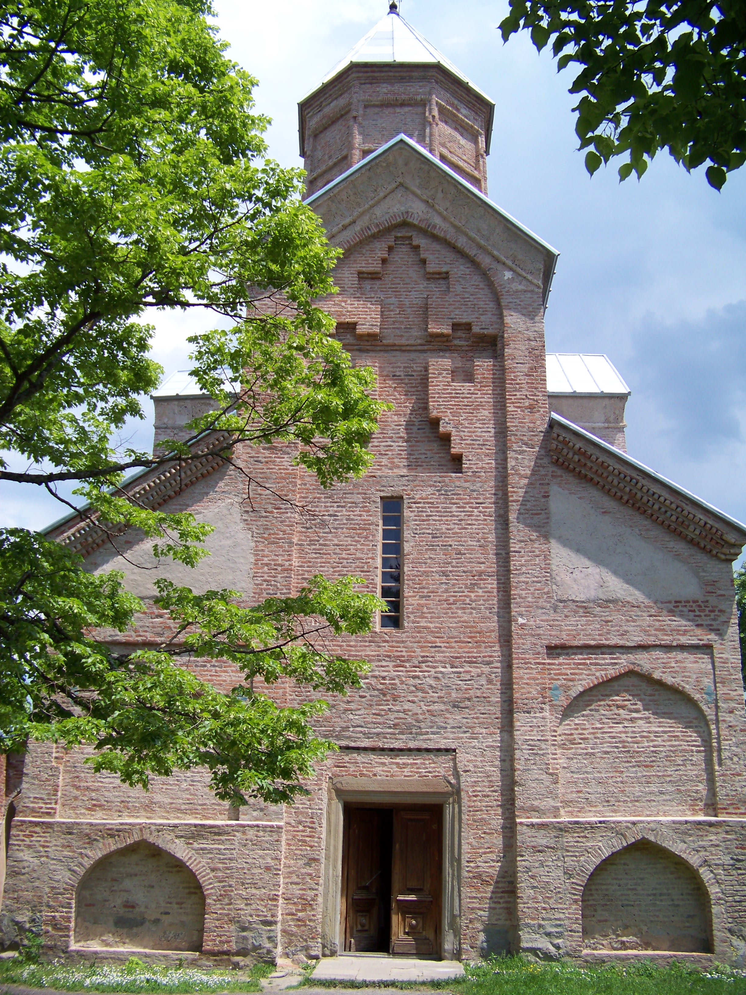 Akhali Shuamta